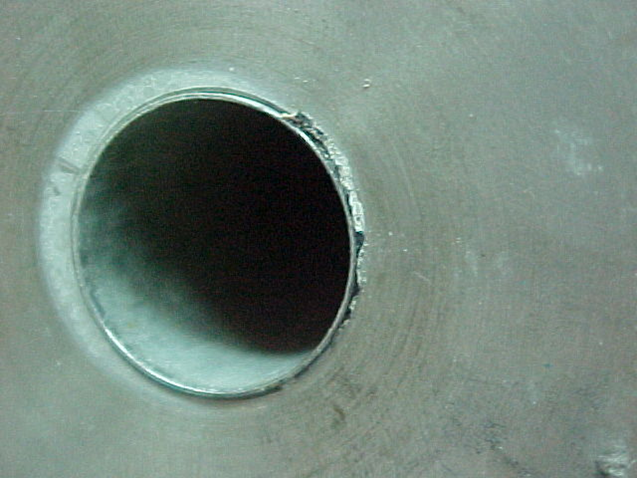 Crevice corrosion of type 316 stainless steel in a desalination plant